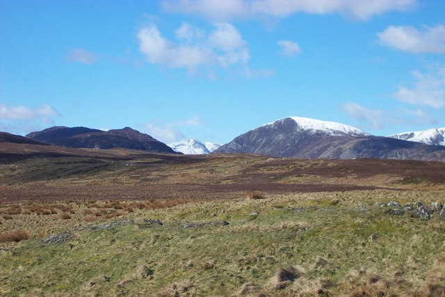 Cefn Cyfarwydd Moorland with a View. Cefn Cyfarwydd Moorland looking Southwest to the snow capped Pen Llithrig y Wrach taken from near the O.S. trig pillar at SH 76416 64273.